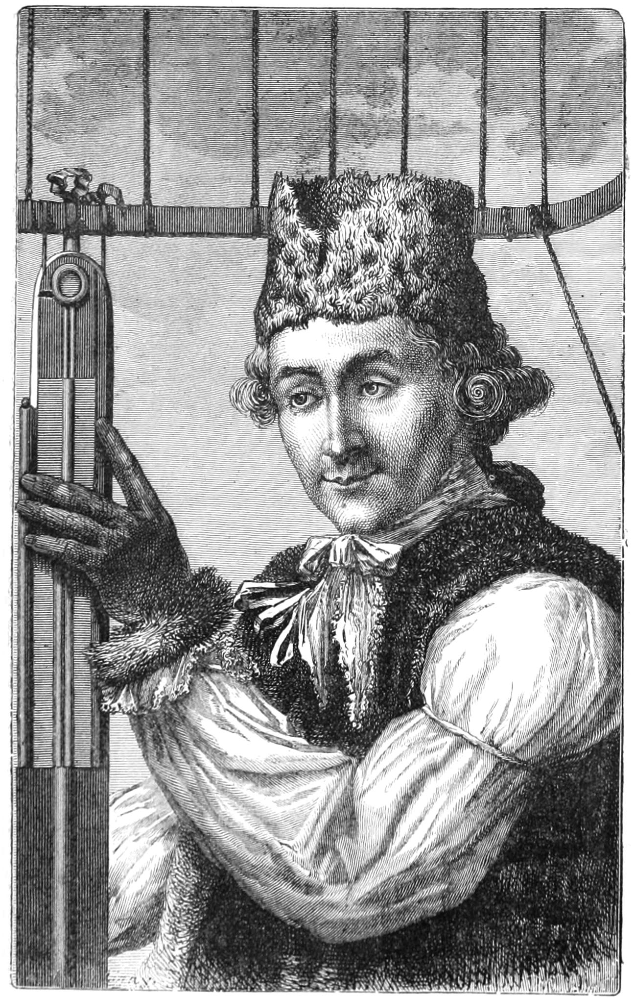 Illustration, "Dr. Jeffries" (John Jeffries) from Wonderful Ballon Ascents